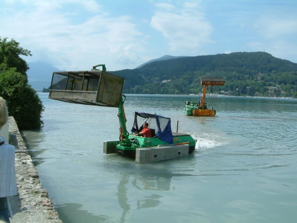 Removal of vectors of cercarial dermatitis from the littoral zone: Machines used in Lake Annecy for crushing up and collecting snails creeping on the ground.